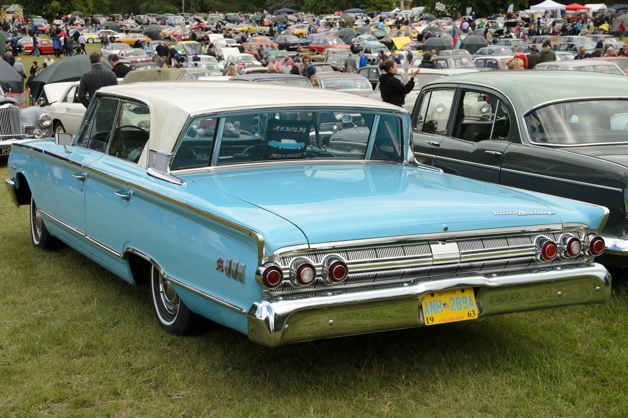 Trentham Gardens Classic Car Show 21/06/2015